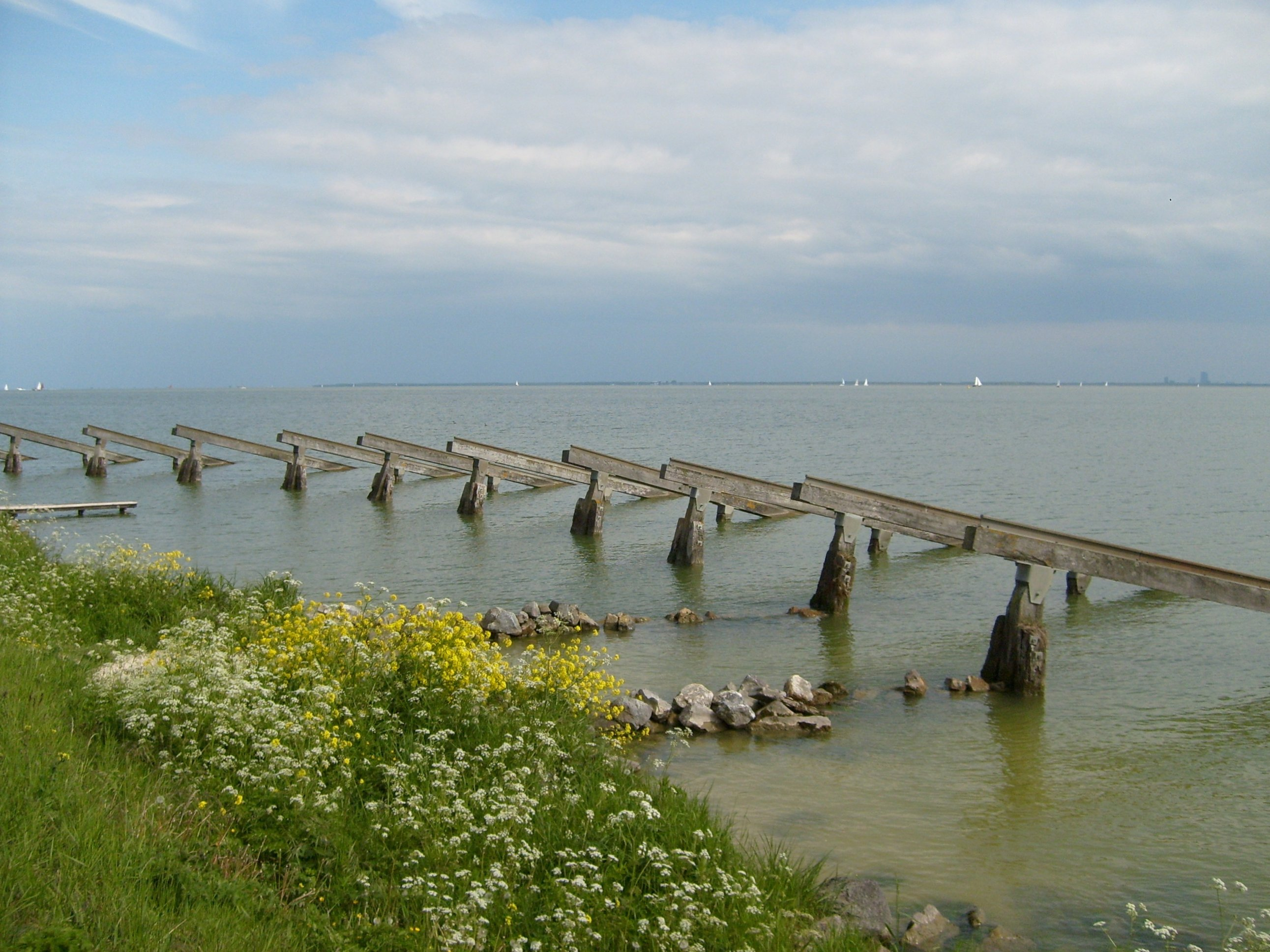 These rails are put in the lake to break ice shelves that drift towards the houses. This is sometimes a problem when the water in the IJsselmeer freezes.